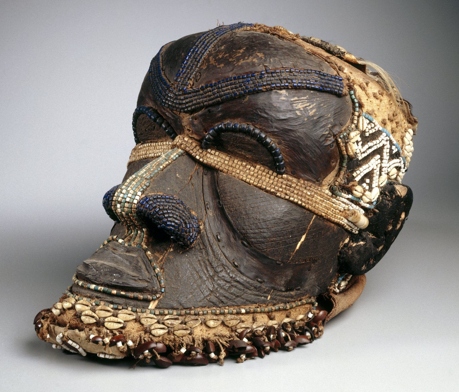 A mask from the Kuba Kingdom. Kuba mythology revolves around three figures, each represented by a masquerade character: Woot, the creator and founder of the ruling dynasty; Woot’s spouse; and Bwoom. Bwoom’s specific identity varies according to different versions of the myth. He may represent the king’s younger brother, a person of Twa descent, or a commoner. Embodying a subversive force within the royal court, the Bwoom masquerade is often performed in conflict with the masked figure representing Woot.